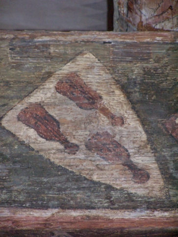 Coat of Arms of the noble family of Wieladingen on an wooden bar from the so called "Schönes Haus" in Bale, c. 1290/1300